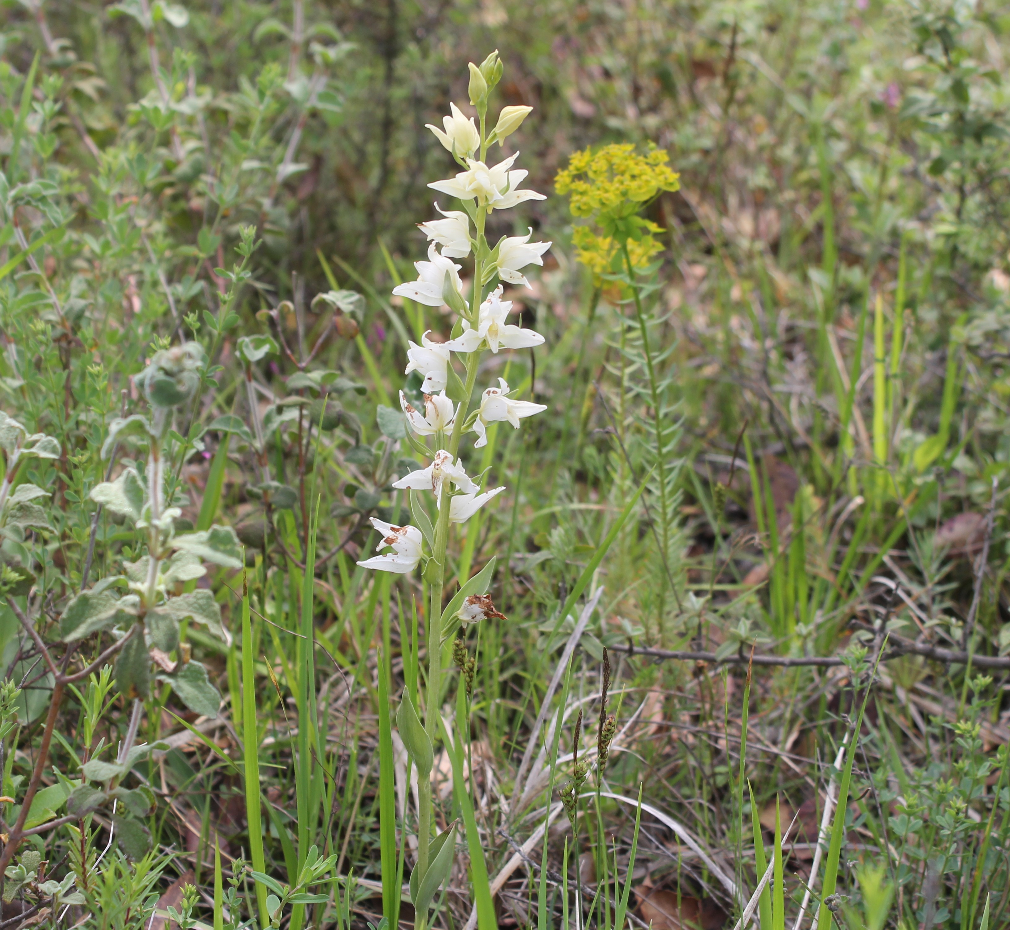 Cephalanthera epipactoides general